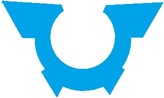 Higashichichibu Saitama chapter